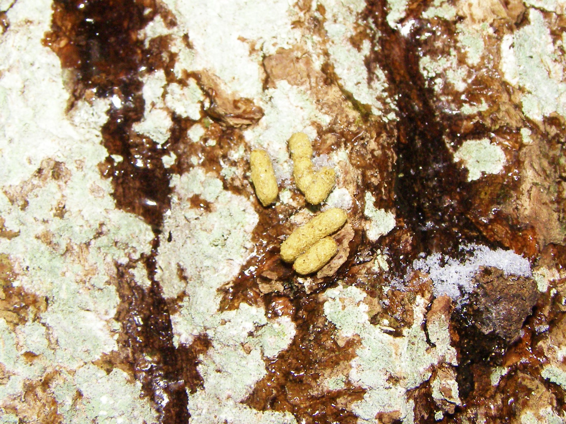 Feces of Siberian flying squirrel beneath of their nest tree. Estonia.